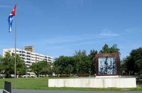 Mausoluem of Artemisa Heroes in Artemisa Province, Cuba